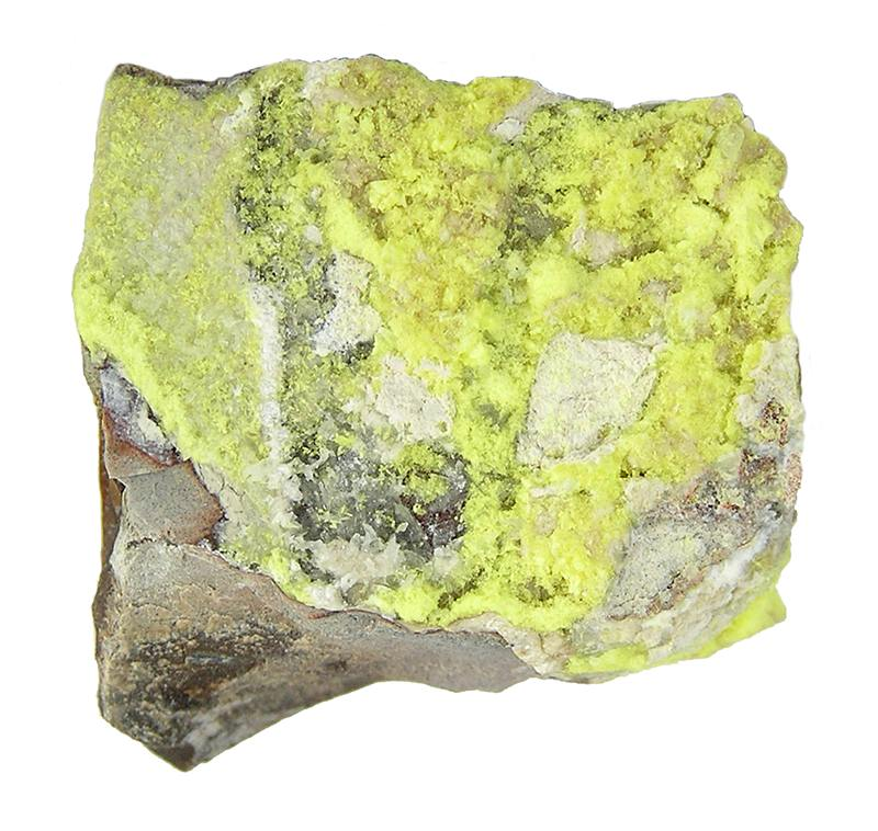 Ettringite Locality: Ma'aleh Adumim, Hatrurim formation, West Bank, Palestine (Locality at ) Size: miniature, 3.7 x 3.5 x 2.6 cm Ettringite Very rare locality material that I am told was collected in 2005 and made available in Europe as only a few specimens. Bright, canary-yellow, microcrystals and crusts of ettringite on matrix from a very uncommon worldwide locality. Excellent material for the species and locality.